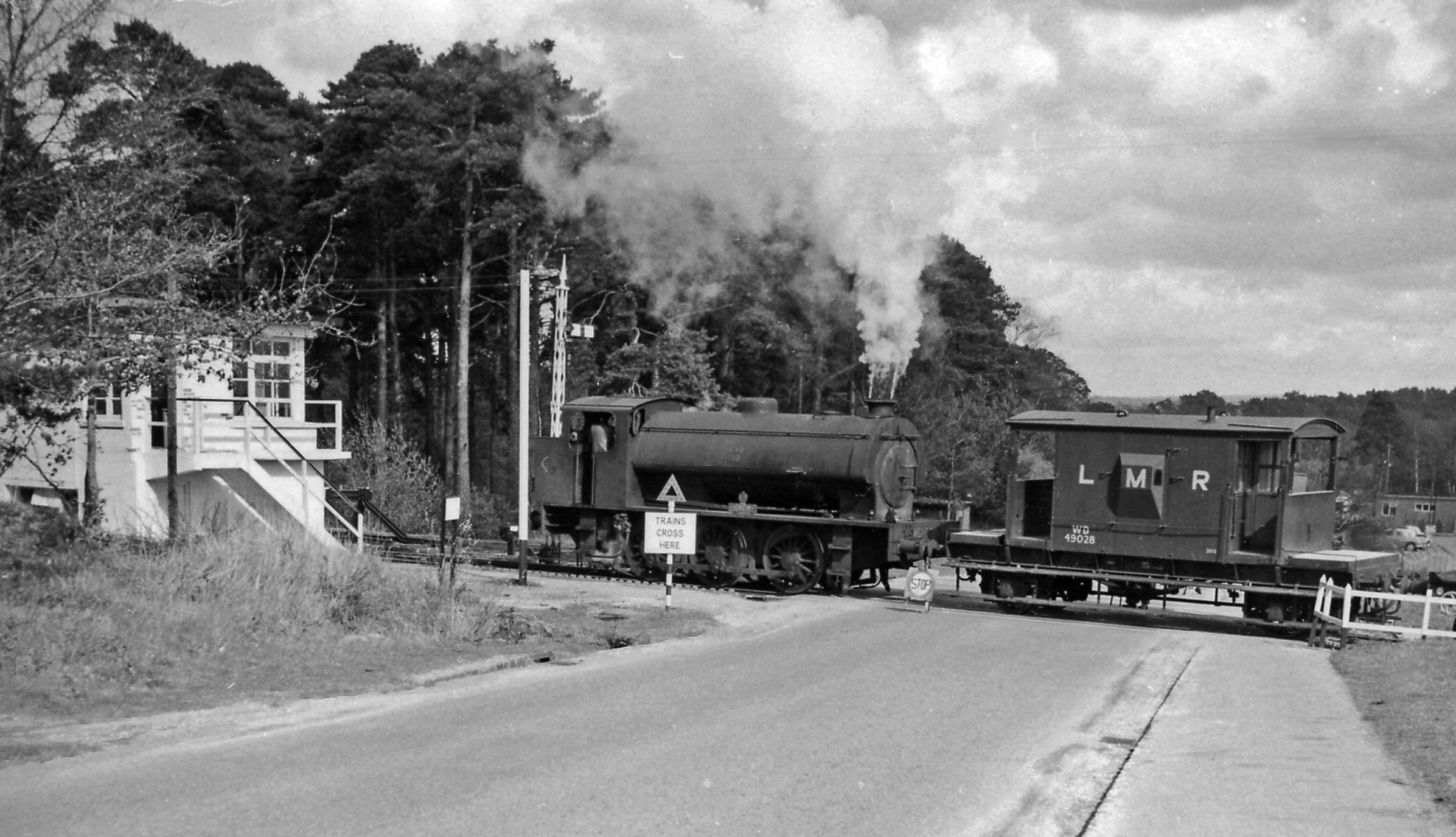 Longmoor Military Railway crossing a road at Bordon, 1963. View eastwards near Bordon, probably on the B2131 road - [but I am not quite certain exactly where, as the network of the LMR was complex and has now completely disappeared]. There is a signalbox (freshly painted in Army fashion) on the left, but no crossing-gates. Crossing with a LMR brakevan (British Railways standard 20-ton design, numbered WD 49028) is a typical WD Austerity 0-6-0ST, WD 102 'CAEN'. This is in the latter days of the LMR, as it was all closed by October 1969.